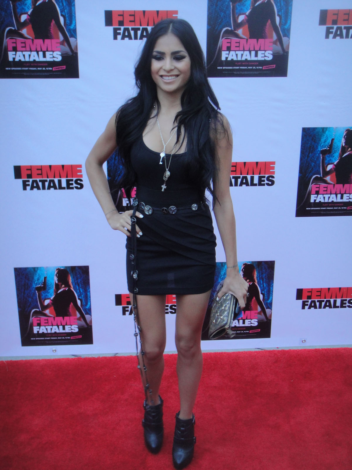 Femme Fatales Red Carpet - Michelle Maylene